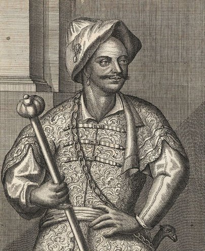 Moulay Ismail Ibn Sharif